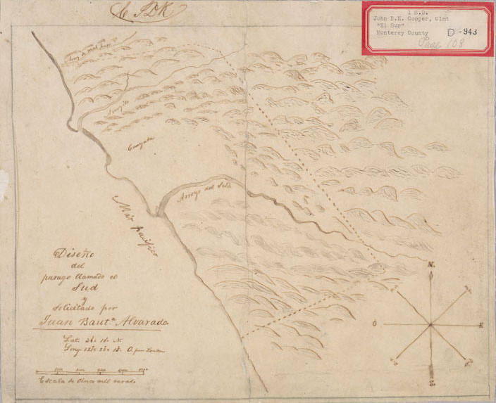 Pen-and-ink and pencil on tracing paper. From: U.S. District Court. California, Southern District. Land case 1 SD, page 108; land case map D-943 (Bancroft Library)."Shows drainage, boundaries, etc." Relief shown pictorially.